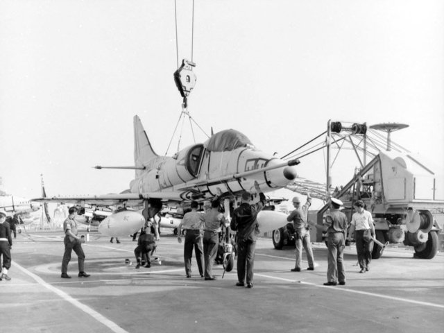 AWM image NAVY14696. Here a Douglas A-4G Skyhawk light attack fighter bomber is being hoist onto the deck of the RAN Majestic Class aircraft carrier HMAS Melbourne (II) R21, at San Diego, California, USA. The aircraft is part of an RAN order of Skyhawks and Grumman Trackers being collected by HMAS Melbourne for delivery to Jervis Bay.